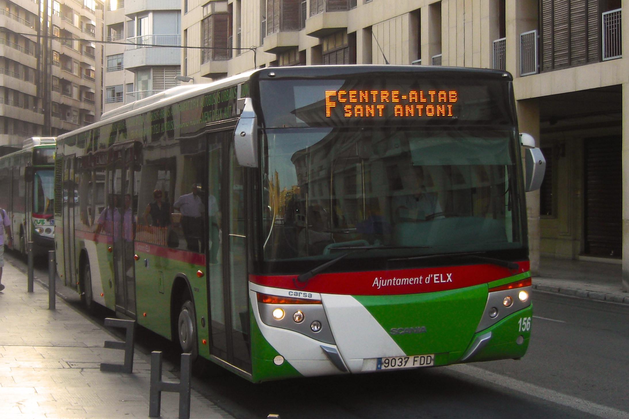 Scania Carsa (SC.40?) bus in Elche. Built Castrosua company.